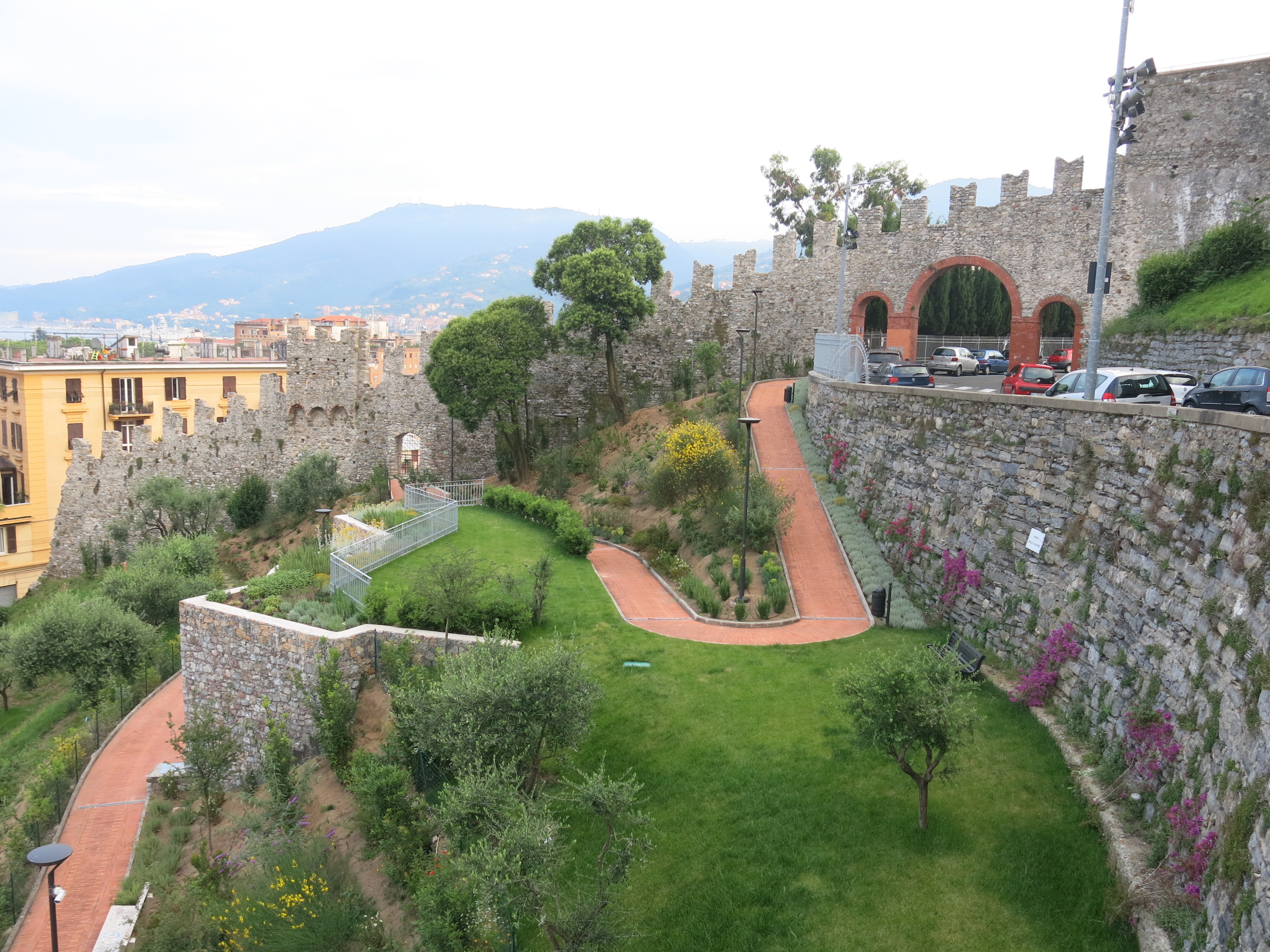 Wall of castello San Giorgio descending to the town of la Spezia (Liguria, Italy).